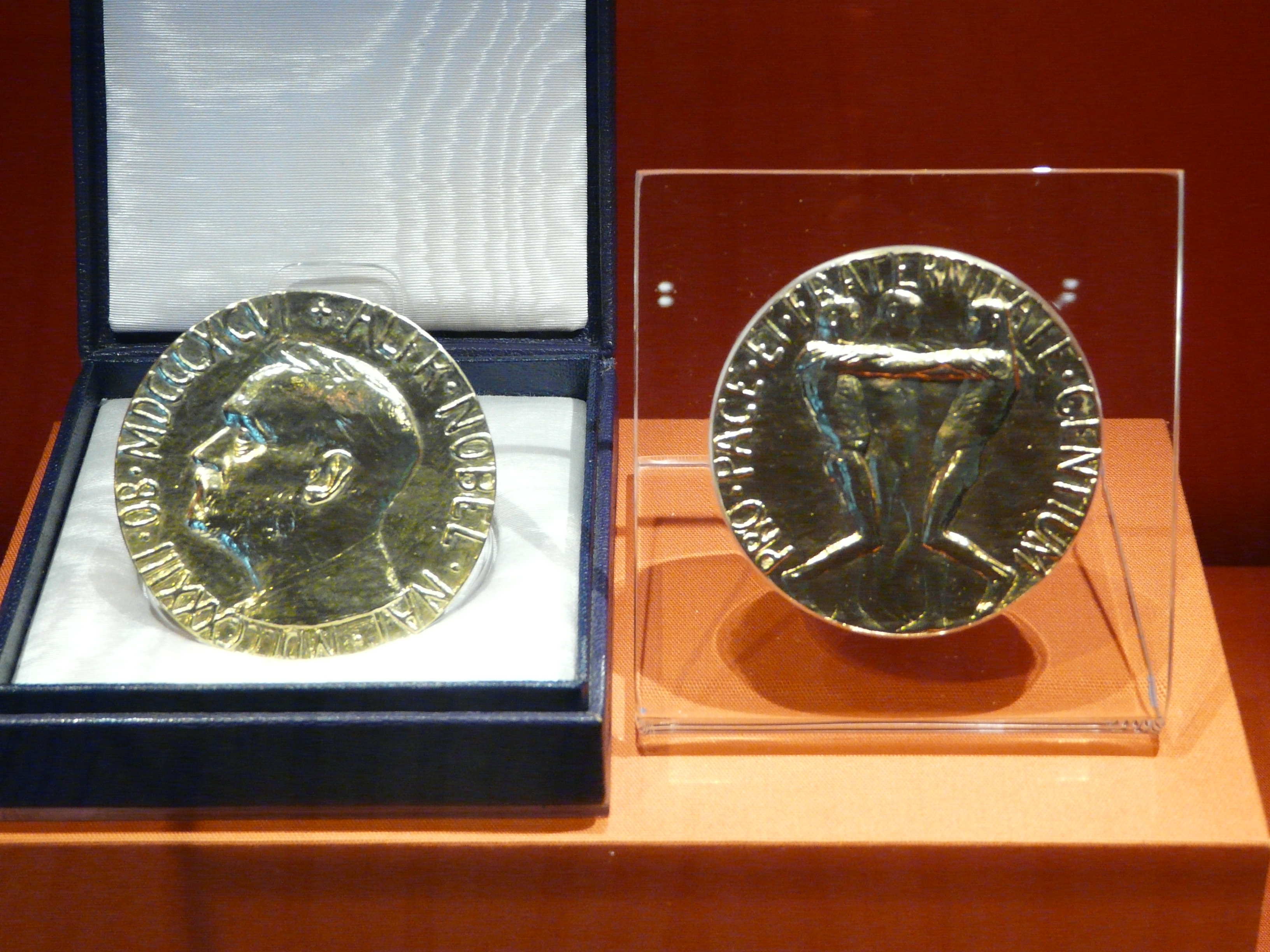 Jimmy Carter Library and Museum